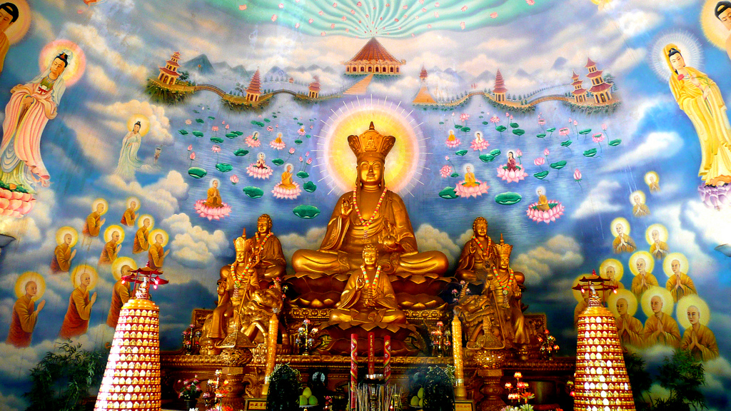 Buddhist temple art including a central statue of Ksitigarbha Bodhisattva, and his Pure Land including attendant bodhisattvas, and arhats who are paying their respects. Saigon, Vietnam.